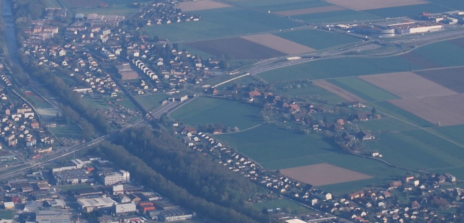 Aerial view of Rüdtligen-Alchenflüh, canton of Bern, Switzerland. Rüdtligen is visible in the foreground, Alchenflüh is in the background, divided from Rüdtligen by the A1 motorway. A portion of Kirchberg is visible on the left side, across the Emme river from Rüdtligen-Alchenflüh. The Lyssach-Alchenflüh shopping center is visible on the left side along the A1 motorway.